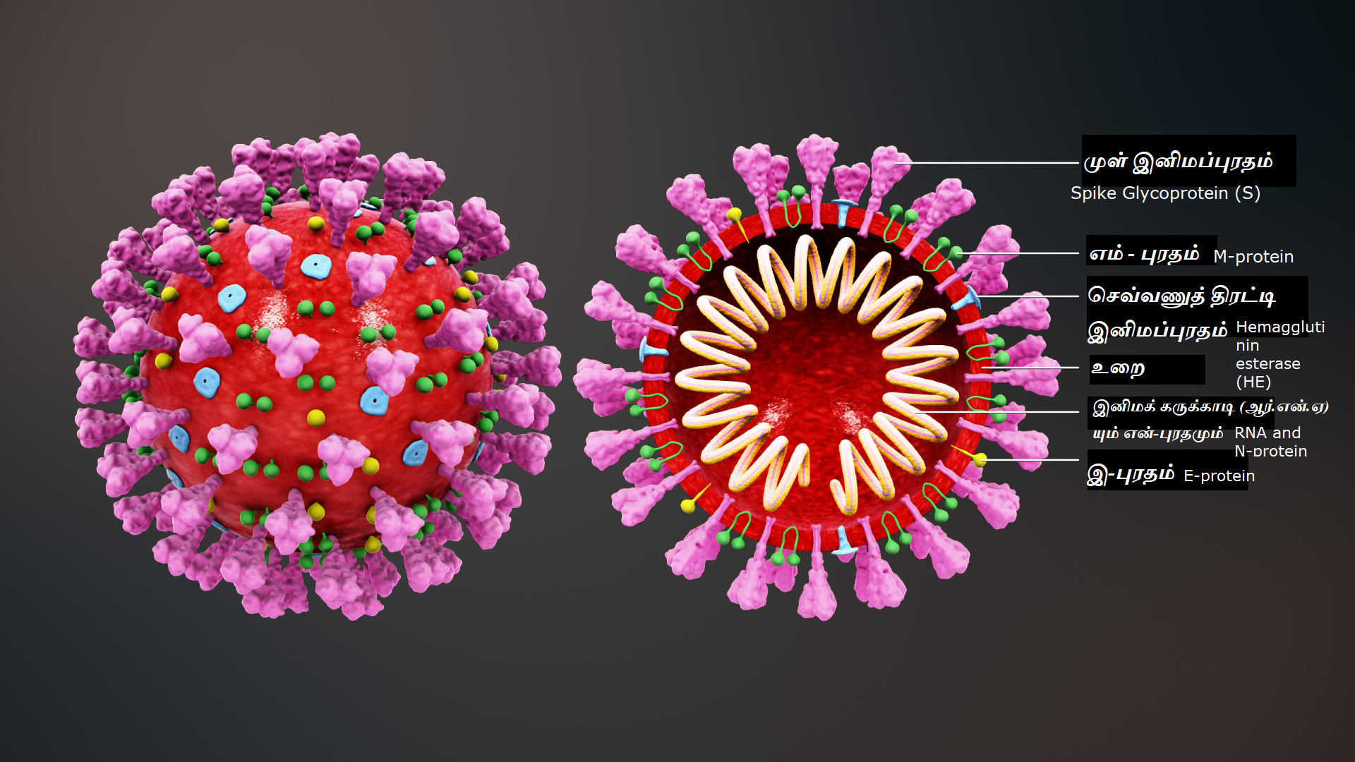 3D medical animation still shot showing the structure of a coronavirus